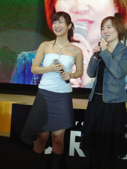 Stella Huang (left) at Sony Fair 2004.